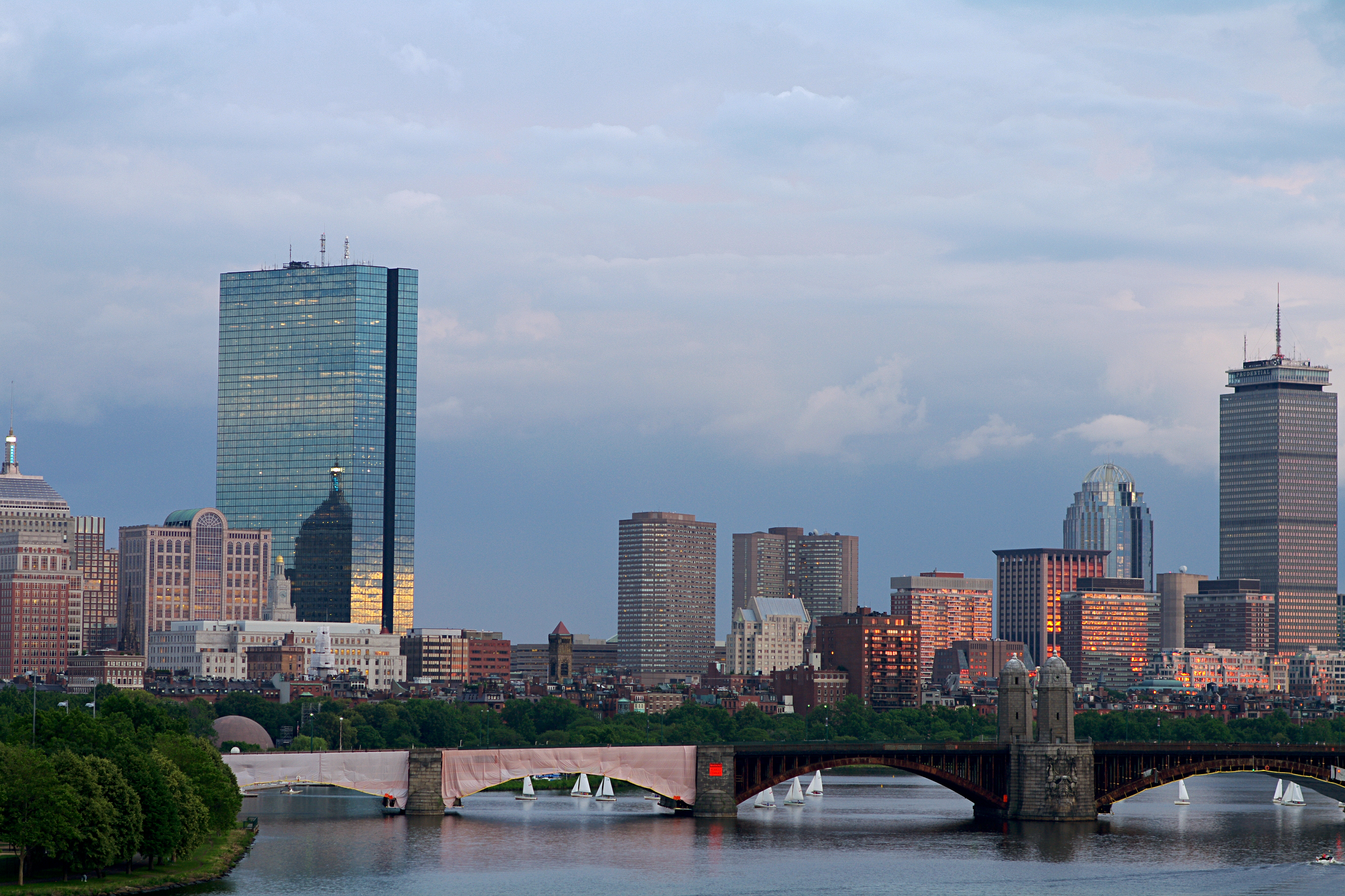 Boston Skyline and construction on the Longfellow Bridge, July 2011.